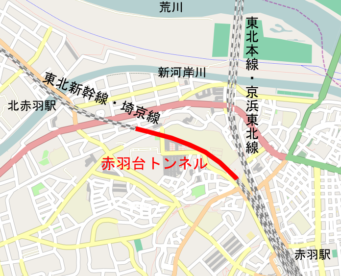 Map of Akabanedai tunnel (Tohoku Shinkansen and Saikyo line), with Japanese description This map may be incomplete, and may contain errors. Don't rely solely on it for navigation.